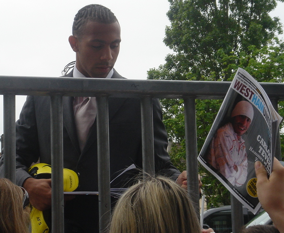 Anton Ferdinand signing autographs for fans, before West Ham's home game v Bolton, 5th May, 2007